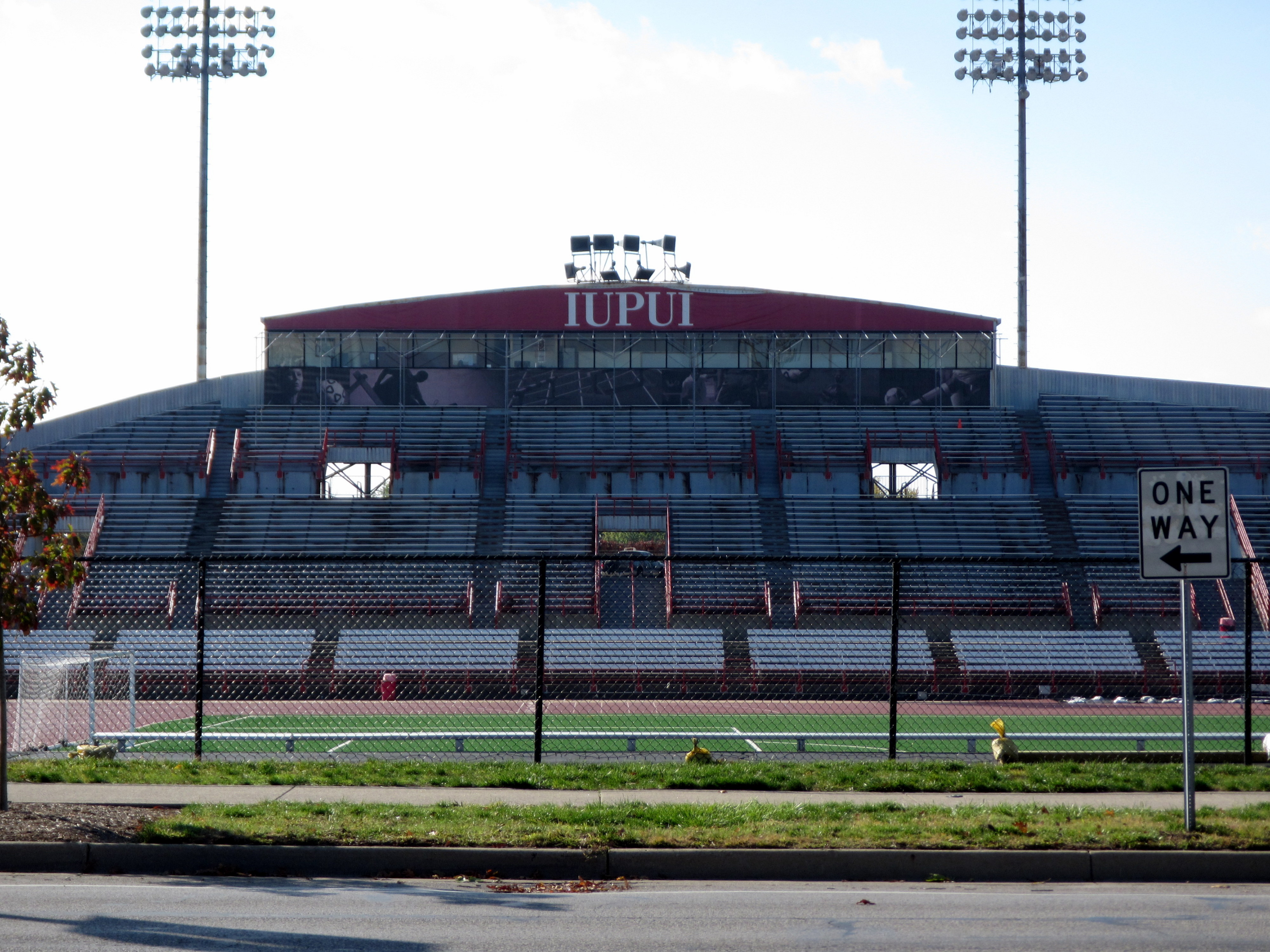 Micheal A Carroll Track & Soccer Stadium